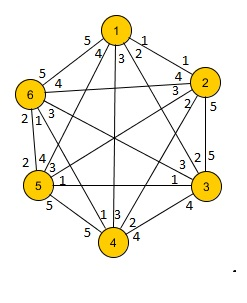 Interval 5-coloring of complete graph on 6 verices